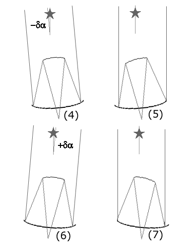 This diagram, used in combination with chopping.gif, shows the nodding cycle of a telescope when astronoms try to unbias their data from a thermal background.